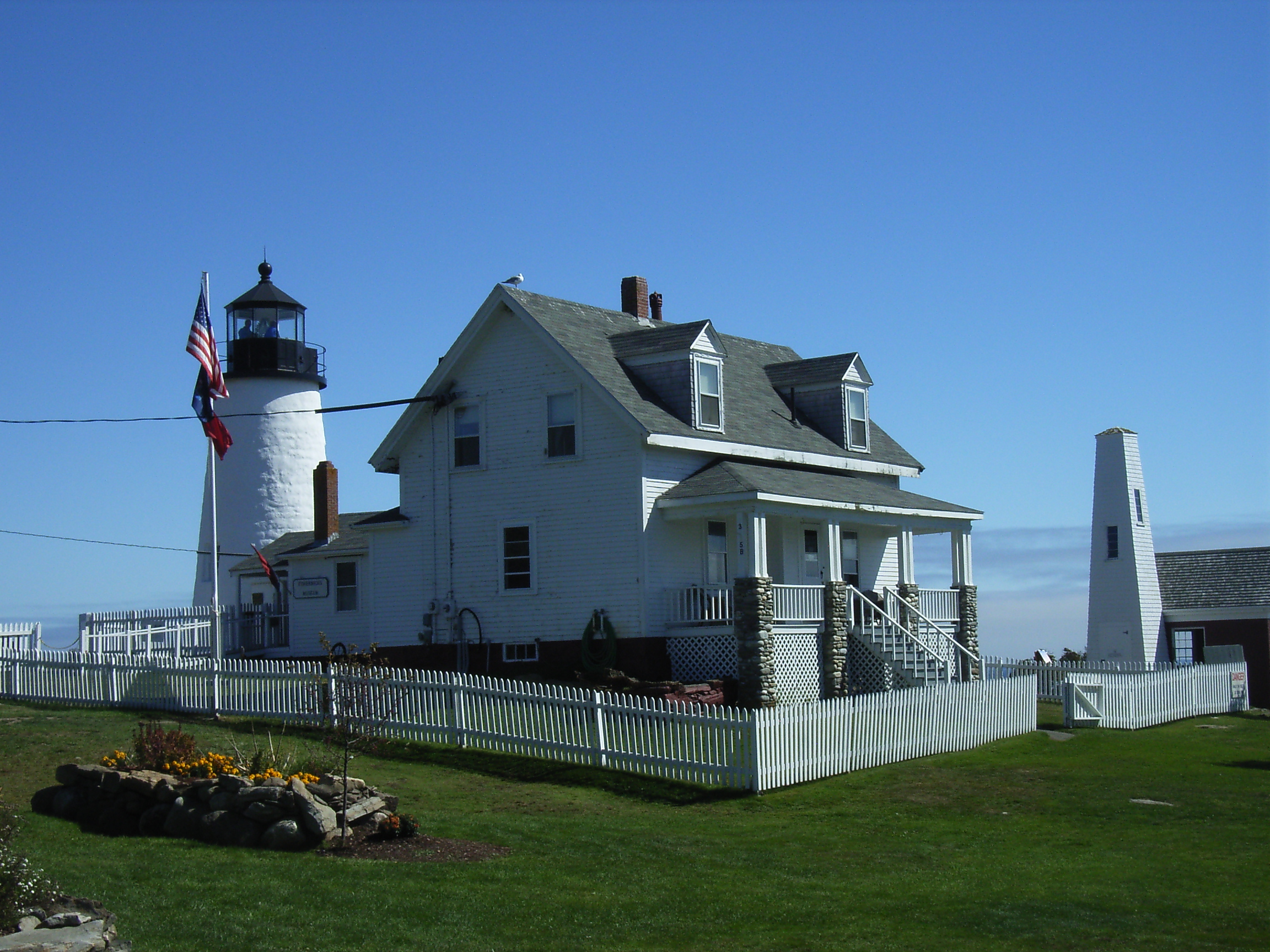 Pemaquid Point Lighthouse, Maine